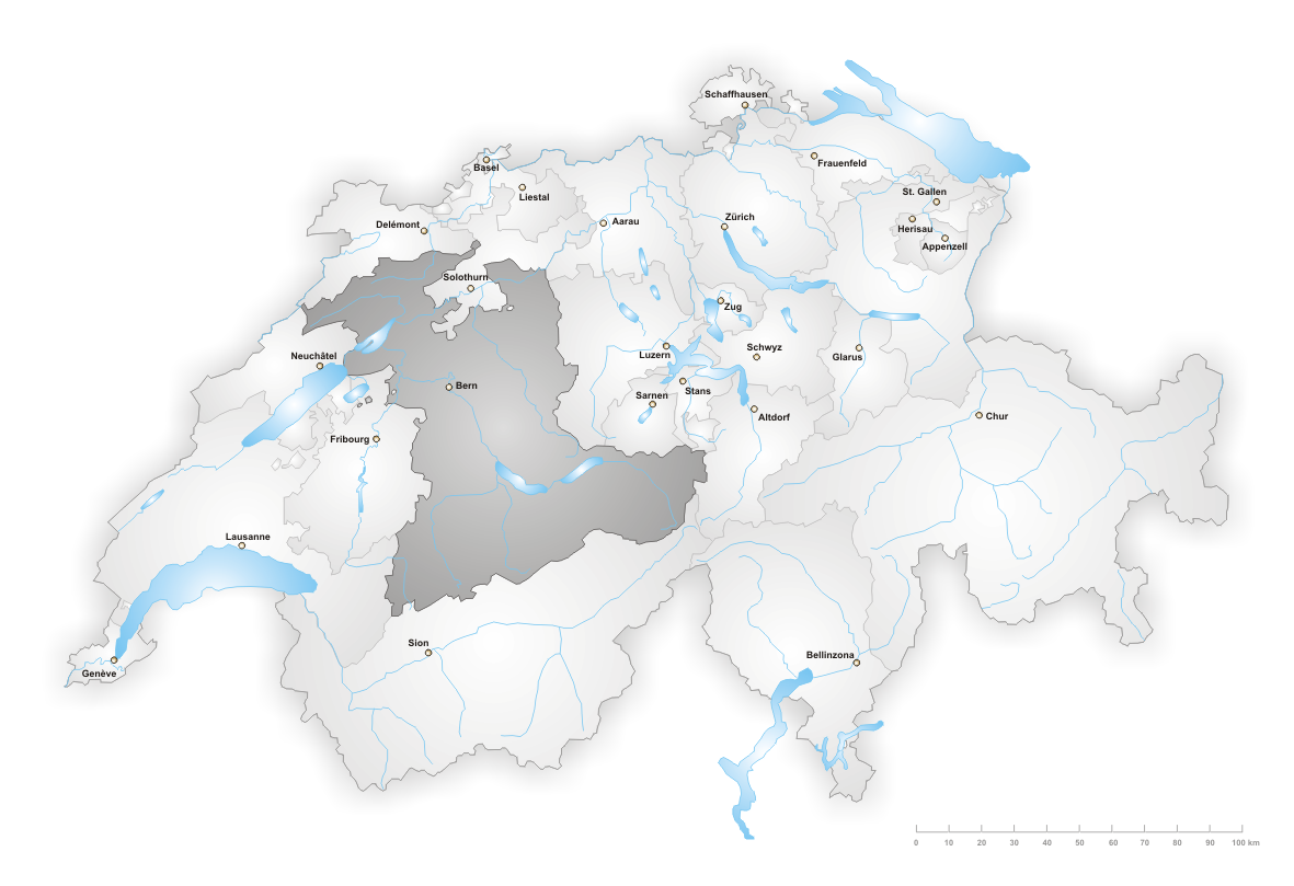 Kanton Bern